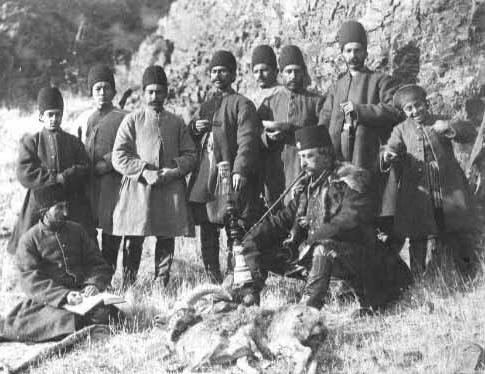 Naser al-Din Shah Qajar (1831–1896) with qalyan (Hookah or waterpipe), Iran.